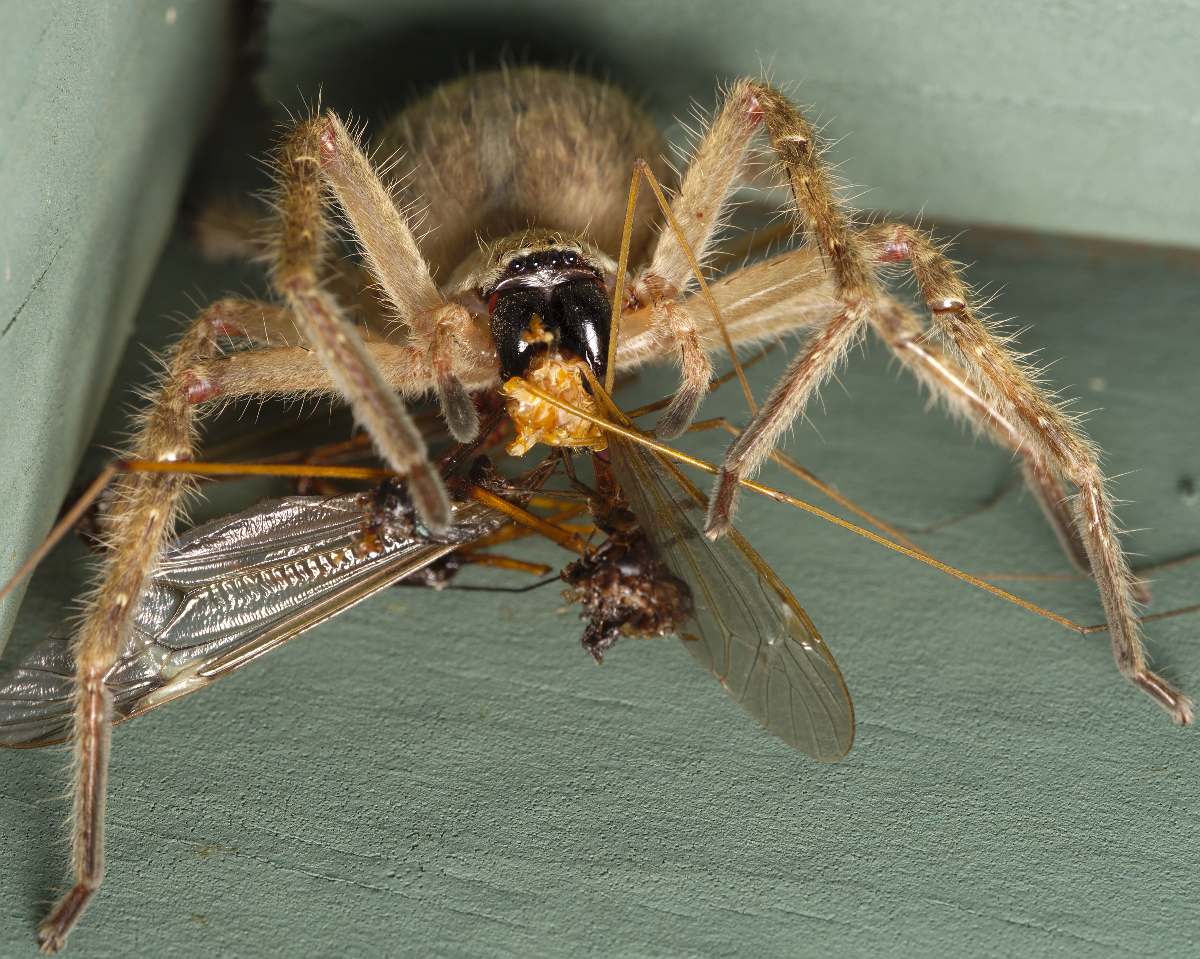 An Olios giganteus huntsman spider eating crane flies, discovered above a doorway near Lake Isabella, California.